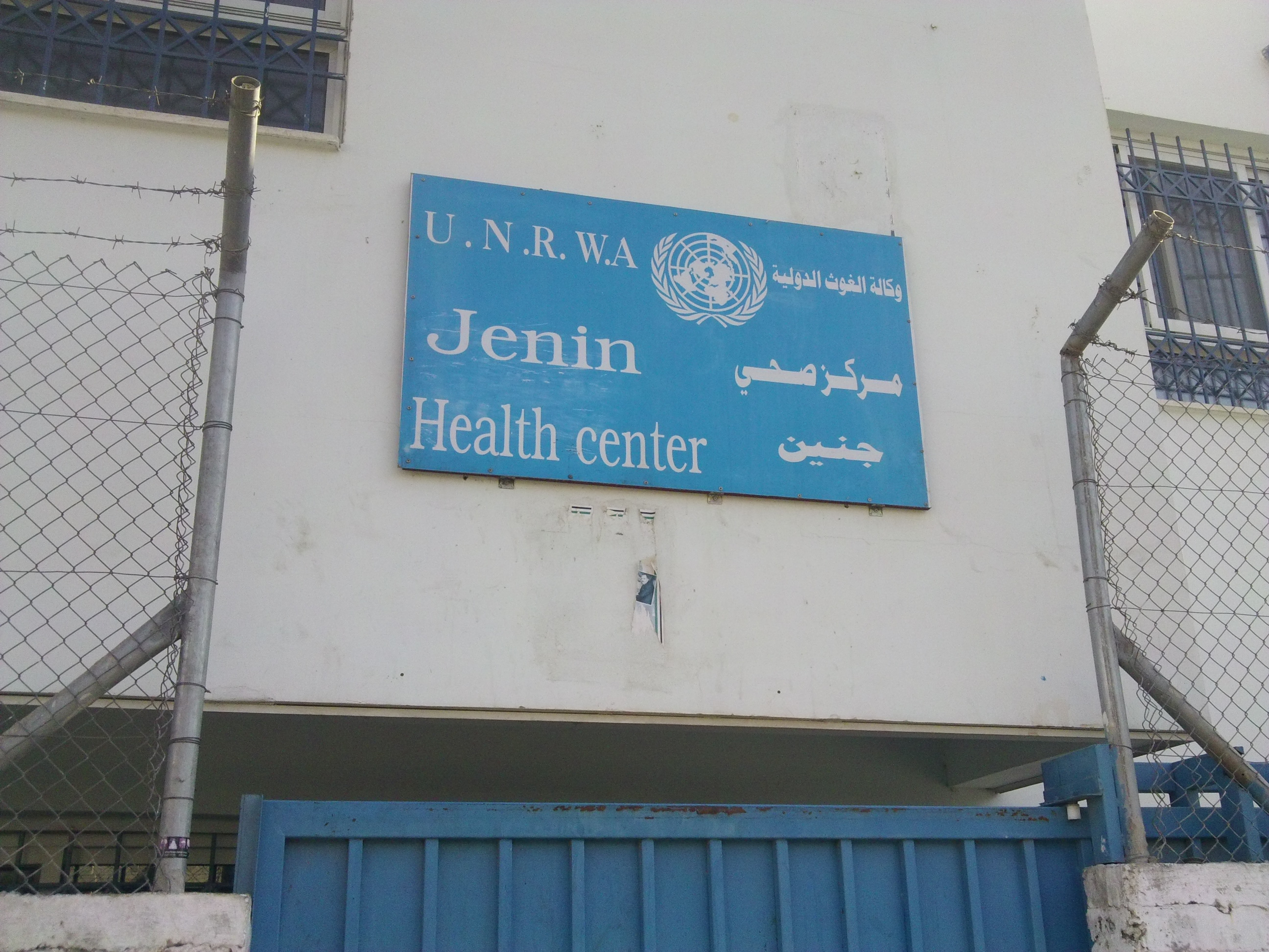 inside the refugee camp